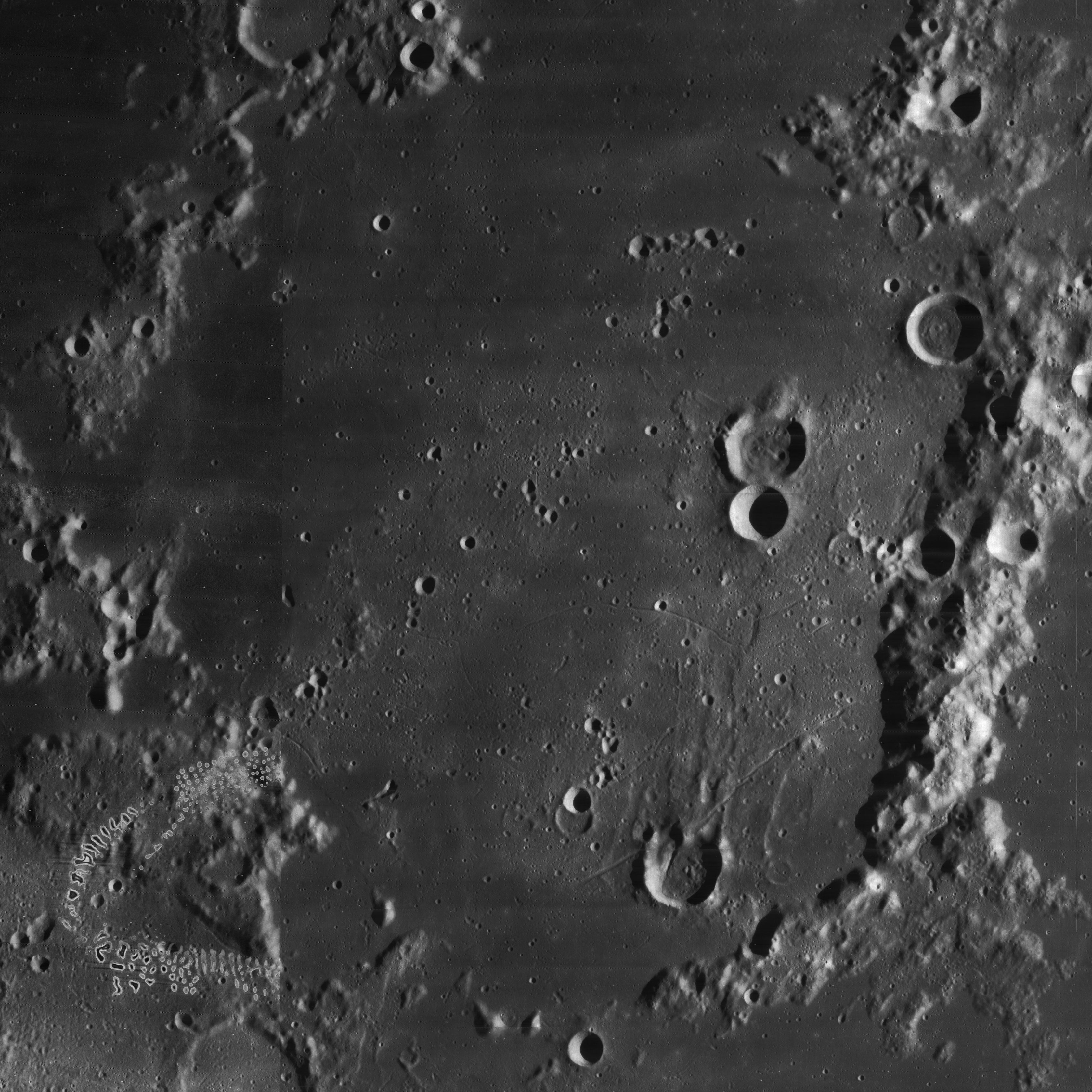 Struve, on the moon. The C shaped row of spots in lower left is a blemish on the original.